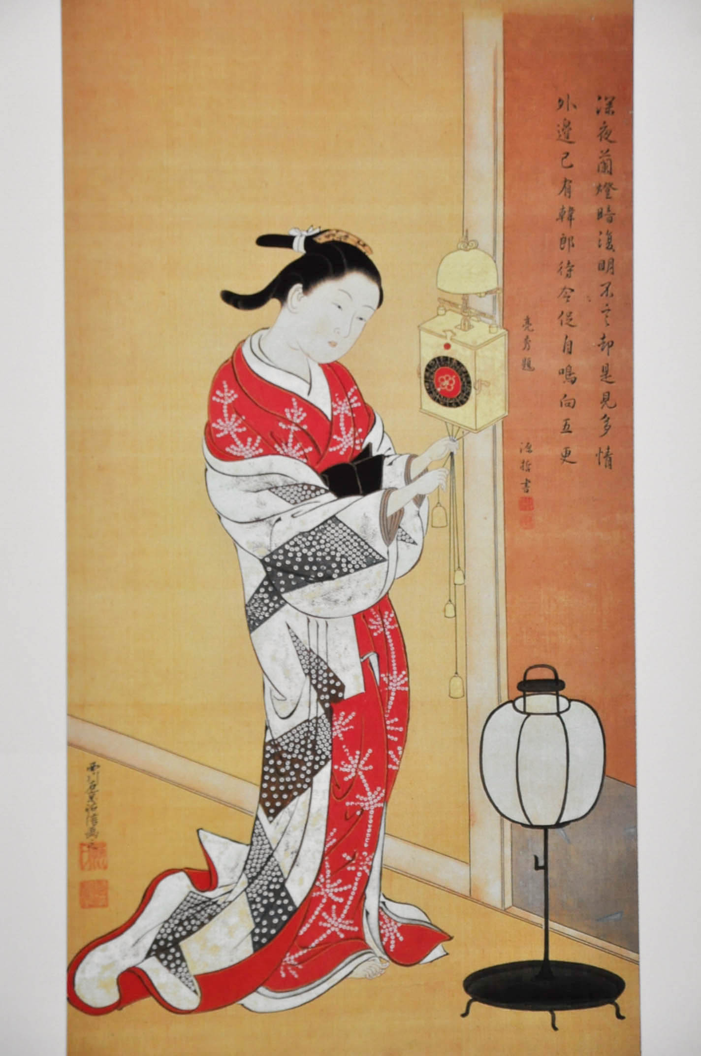 Nishikawa Sukenobu, Bijin and clock, painting on silk, kakemono size (28" by 15").